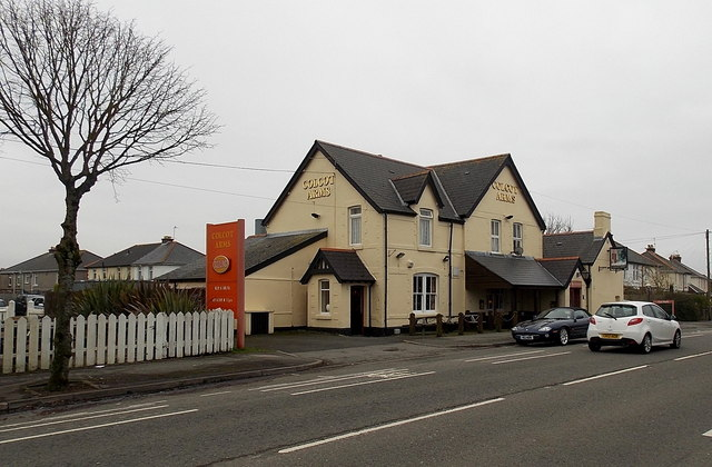 Colcot Arms, Barry. A member of the Sizzling Pubs chain, the pub is on the east side of Colcot Road in the north of Barry.